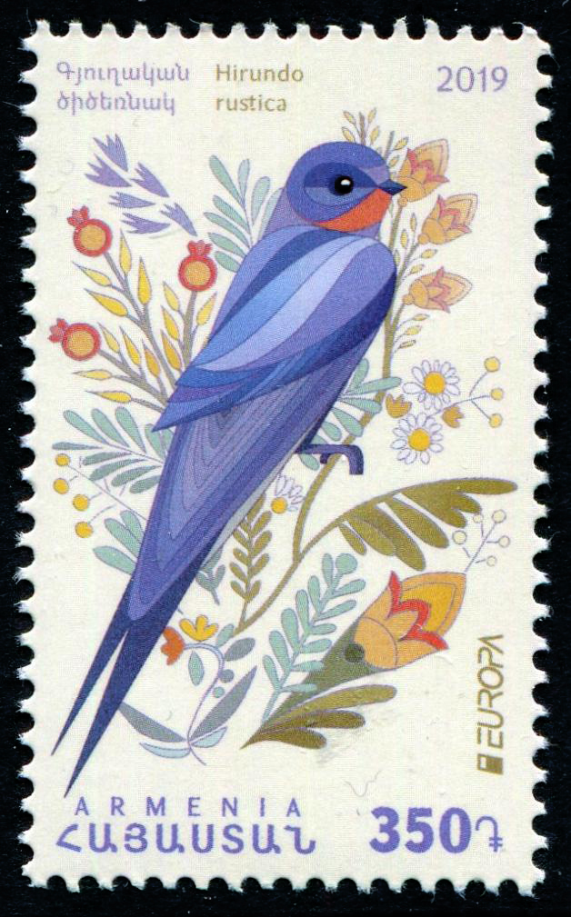 Postage stamps of Armenia, 2019. Birds. EUROPA Issue